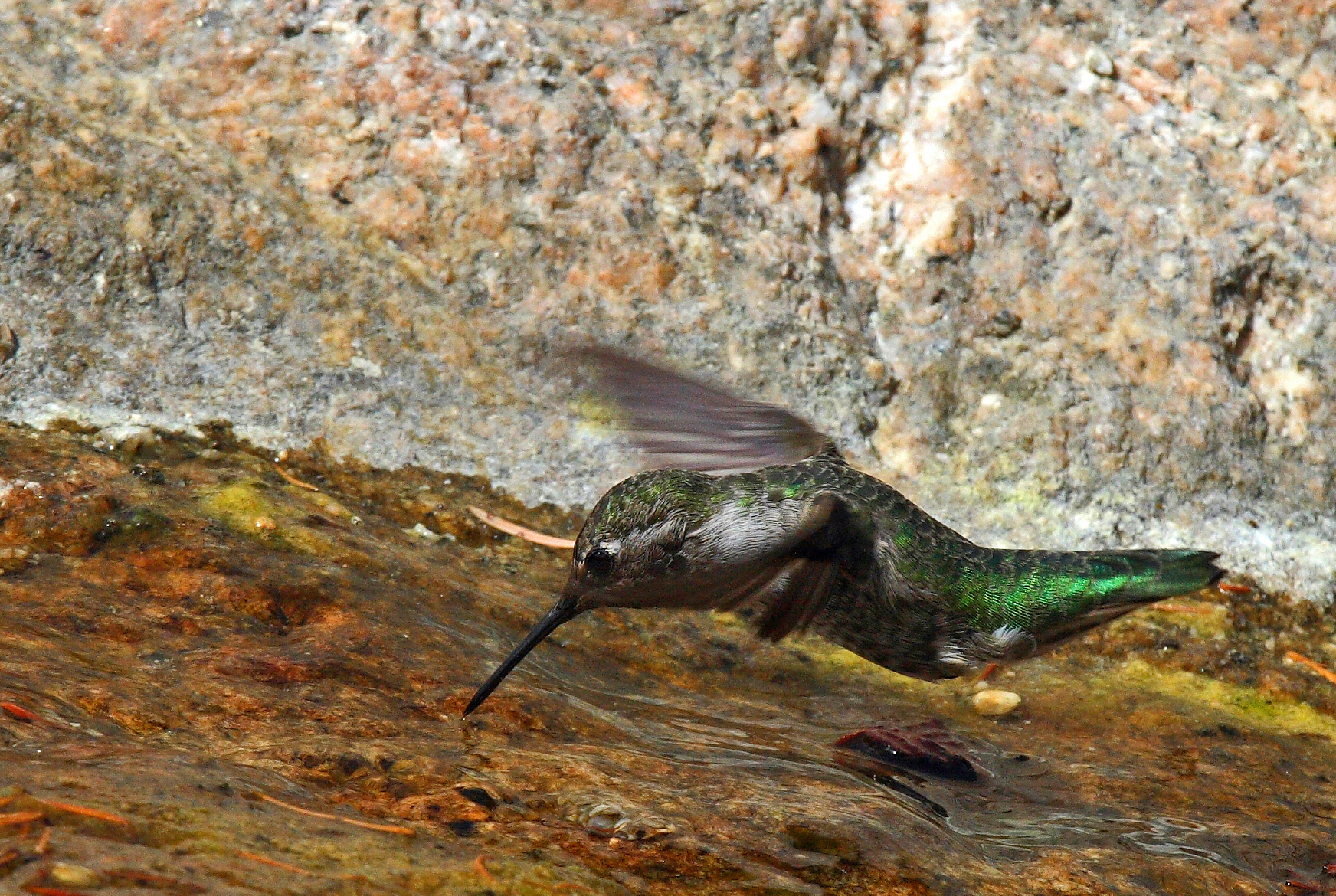 Anna's Hummingbird (female)